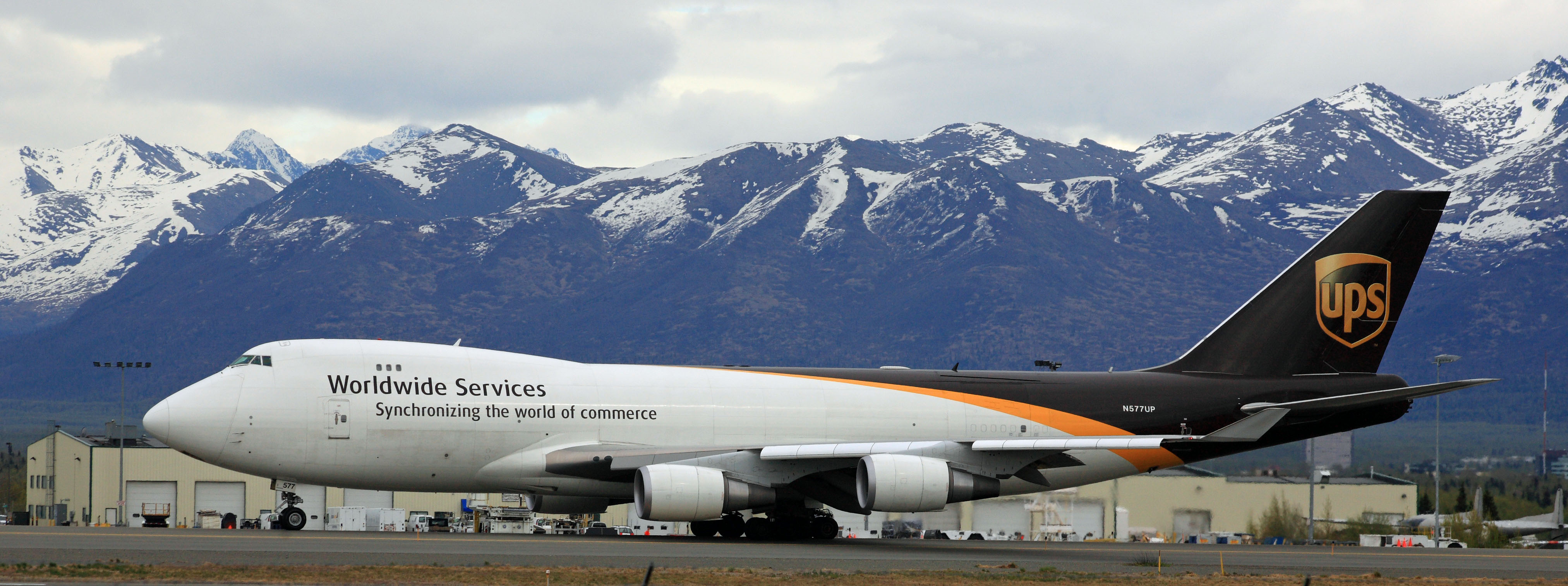 A side view of a Boeing 747-400F (tail N577UP) operated by UPS Airlines. The aircraft was photographed at Ted Stevens Anchorage International Airport in Anchorage, Alaska.